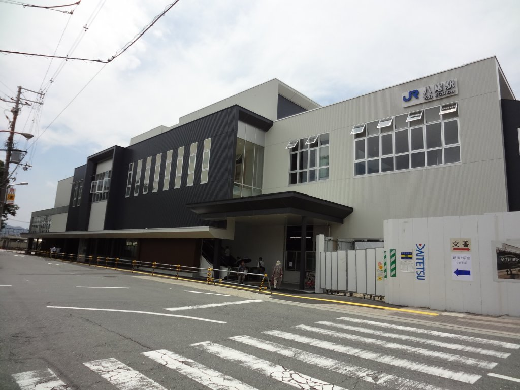 JR Yao station north gate